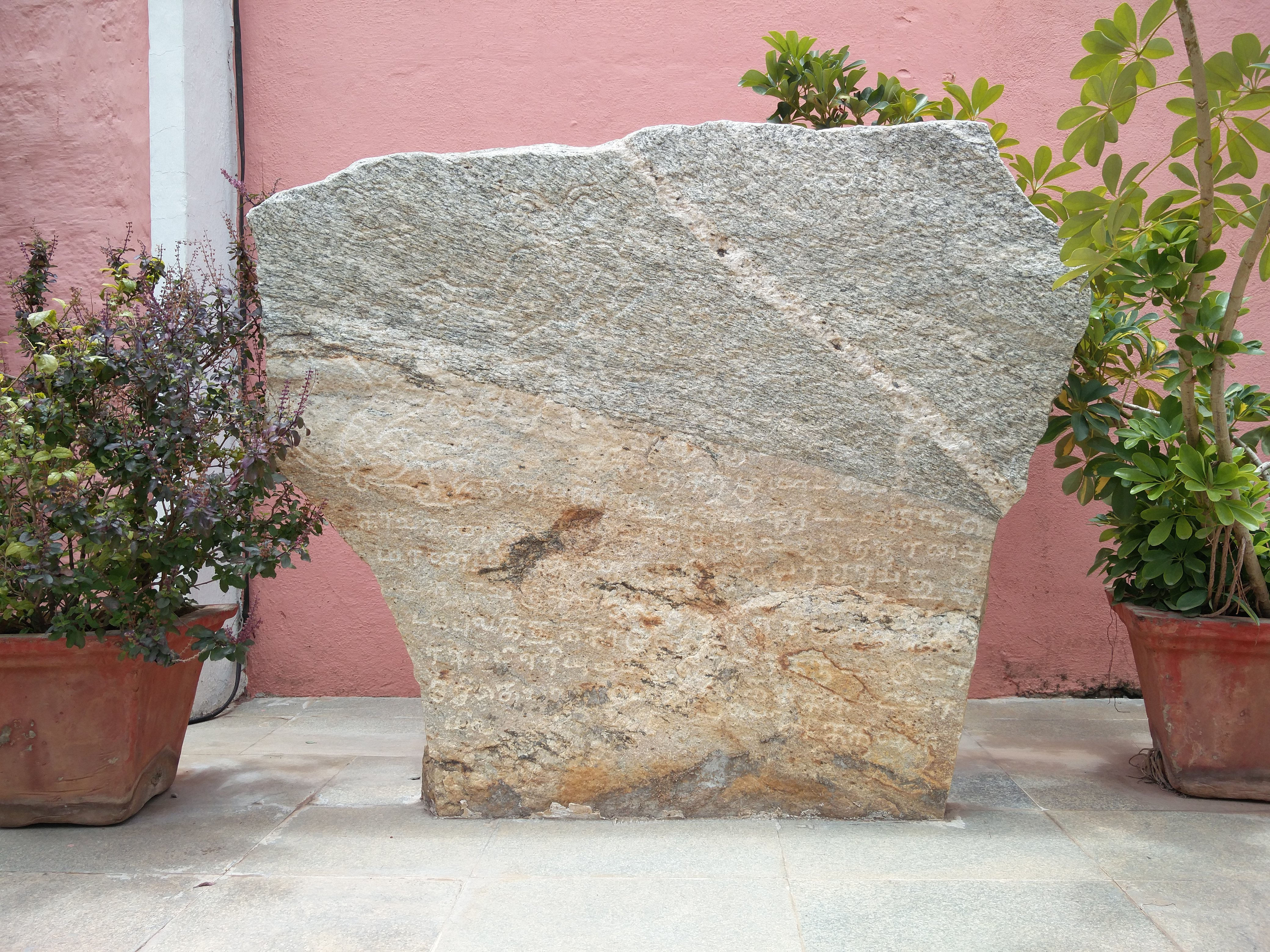 Vibhutipura Stone Inscription -1